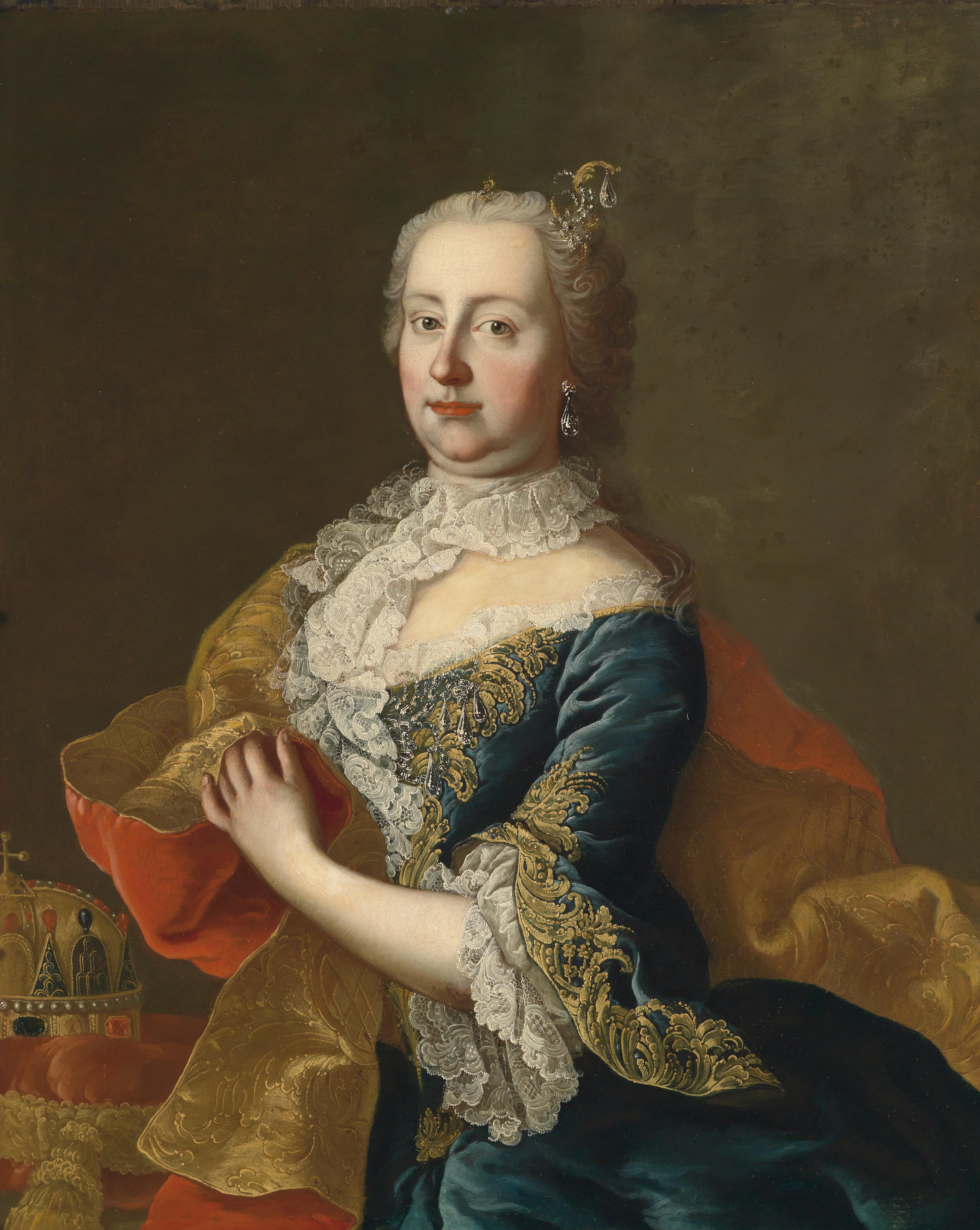 Portrait of Maria Theresia (1717-1780)